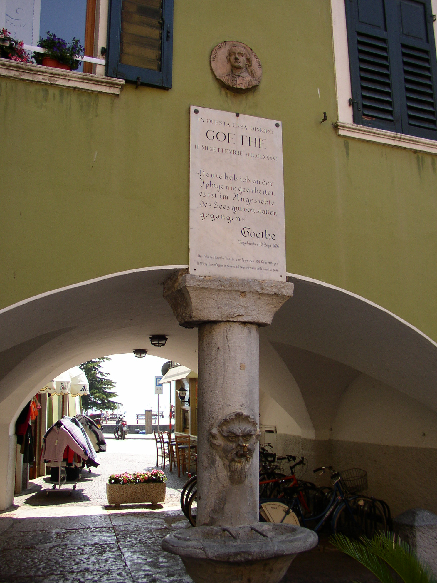 Memorial tablet in Torbole reminding of Johann Wolfgang von Goethe's visitation at Lake Garda